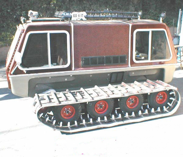 Kristi KT7 prototype, serial #004, the only known working KT7 of 4 produced. The following text was removed from the image itself per Wikipedia's image use policy: Kristi KT-7 Yetti Restored 2006-7 -- Serial #004 4 passenger snowcat with hydrayliclly adjustable tracks to keep passenger compartment level on both side slopes and on vertical acents and decents of slopes up to 25 degrees